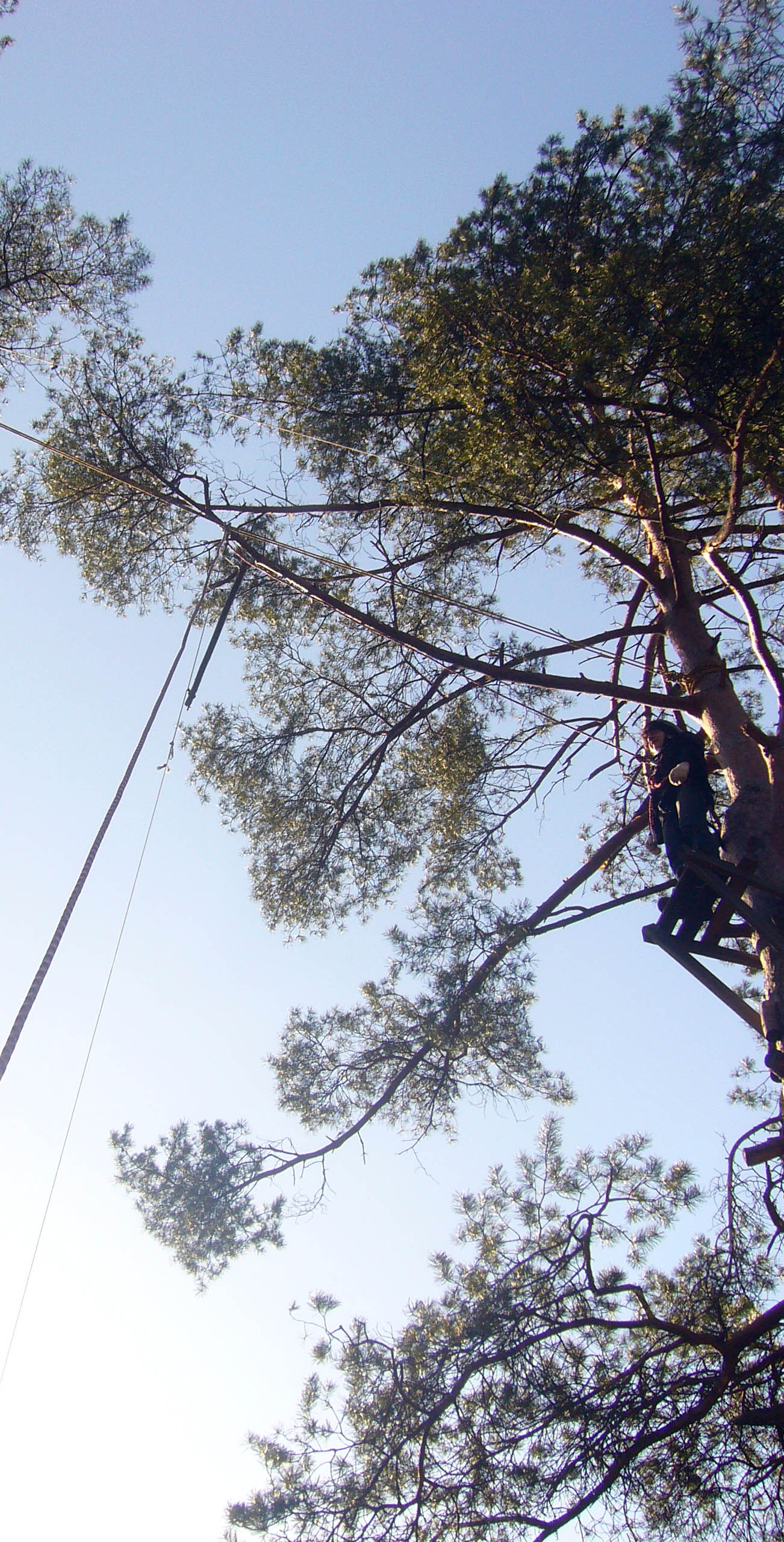 Tree Jump during the Rope Course